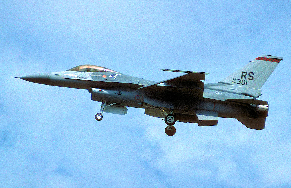 526th Fighter Squadron - General Dynamics F-16C Block 25E Fighting Falcon - 84-301